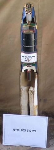 Tank ammunition. Independence Day exhibition at Yad la-Shiryon Museum, Latrun, Israel.